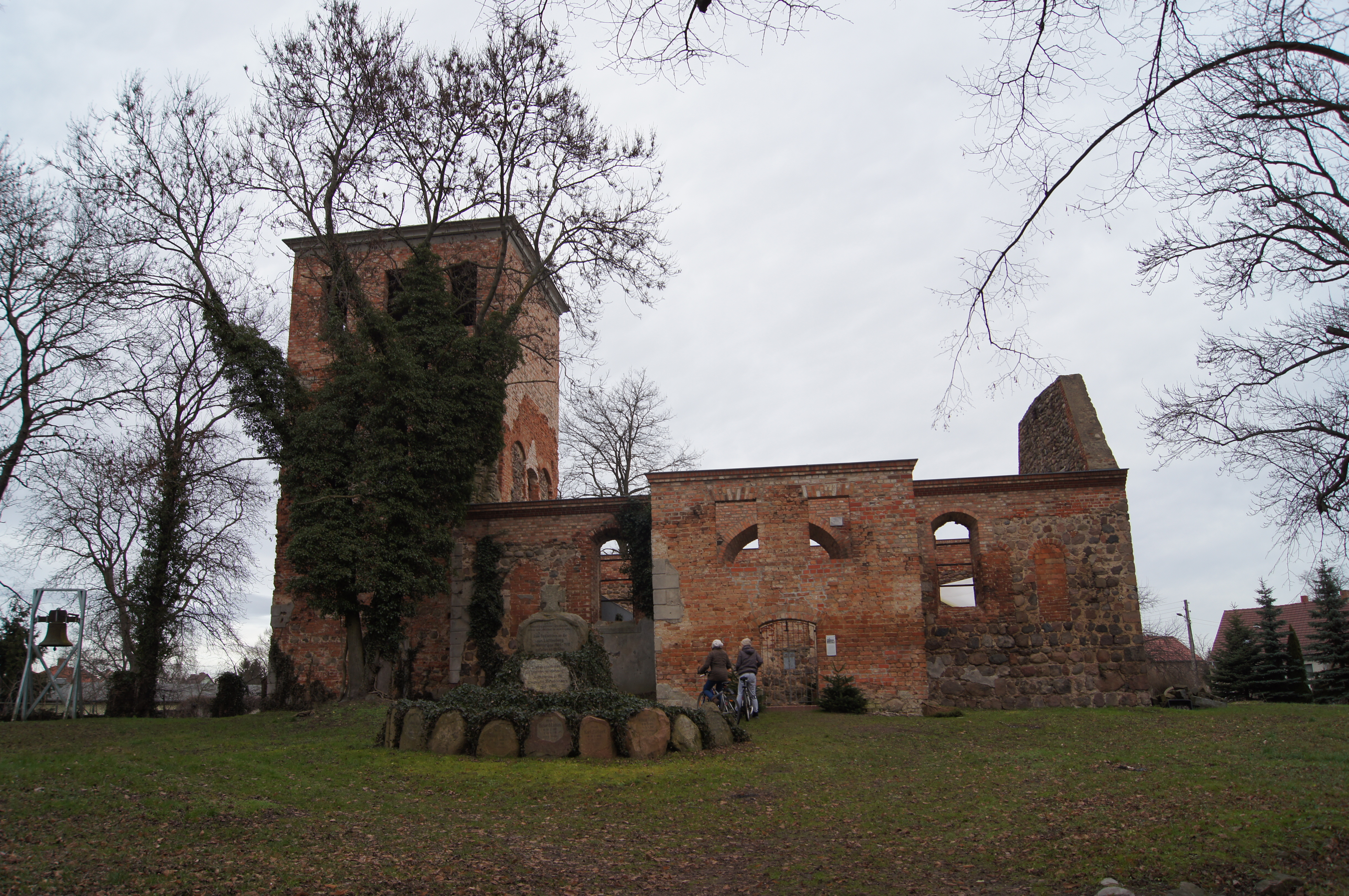 Village church in Lichtenberg (Frankfurt (Oder)), Brandenburg, Germany